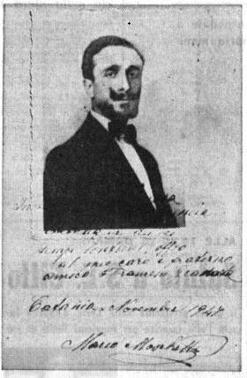 Ritratto dello scultore Mario Moschetti con firma autografa.